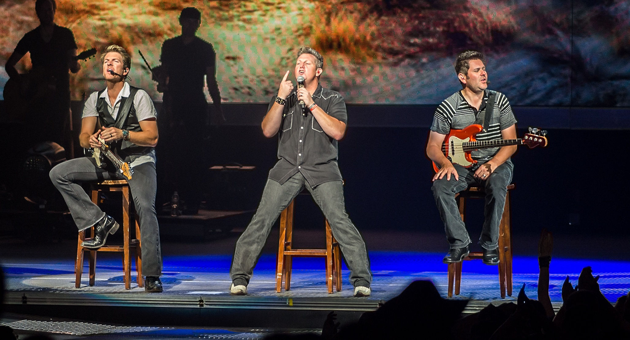 Rascal Flatts performing in Phoenix in 2013